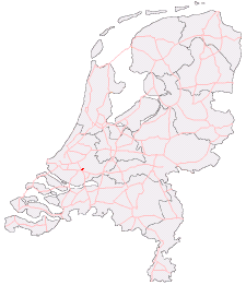 Location of Netherland's Rijkweg 38 (Motorway)